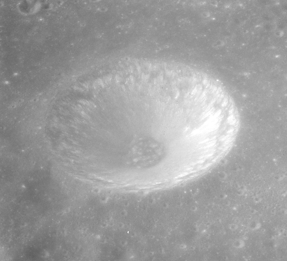 Oblique view of Benedict crater, within Mendeleev crater, on the far side of the moon.